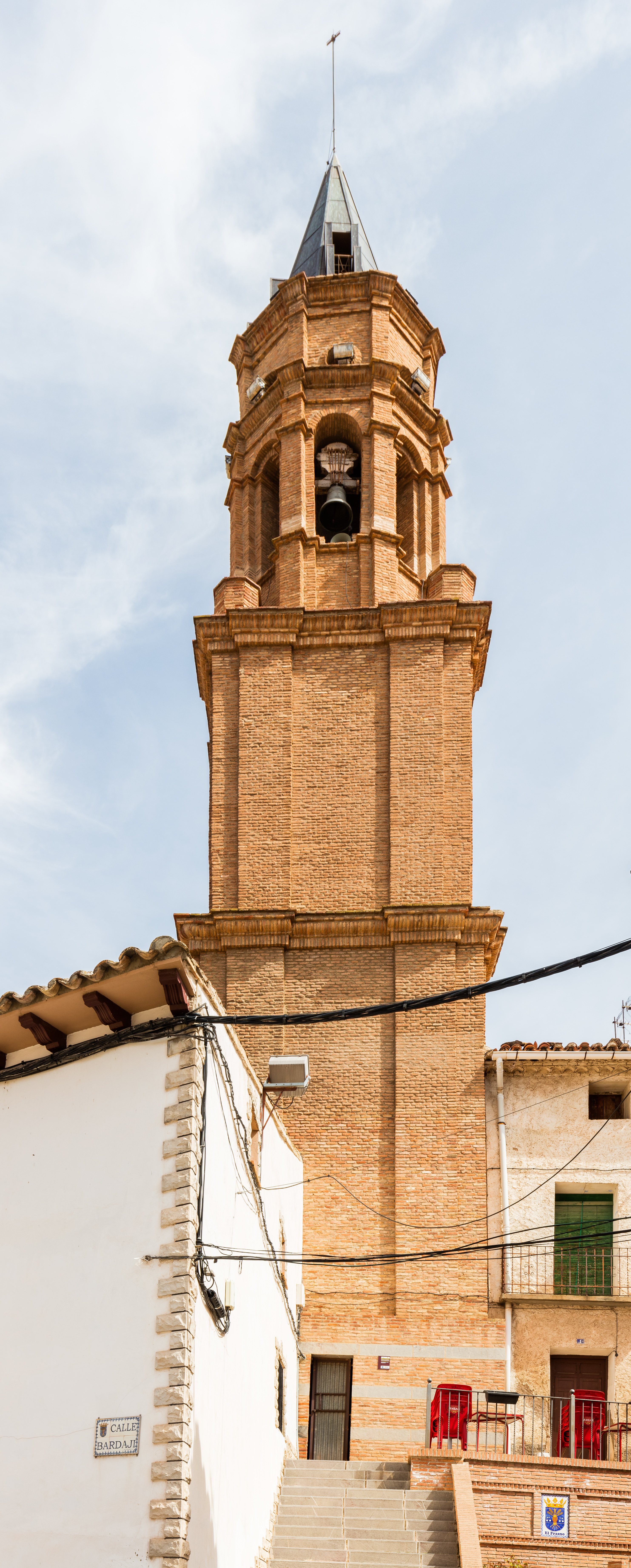 Tower, El Frasno, Zaragoza, Spain